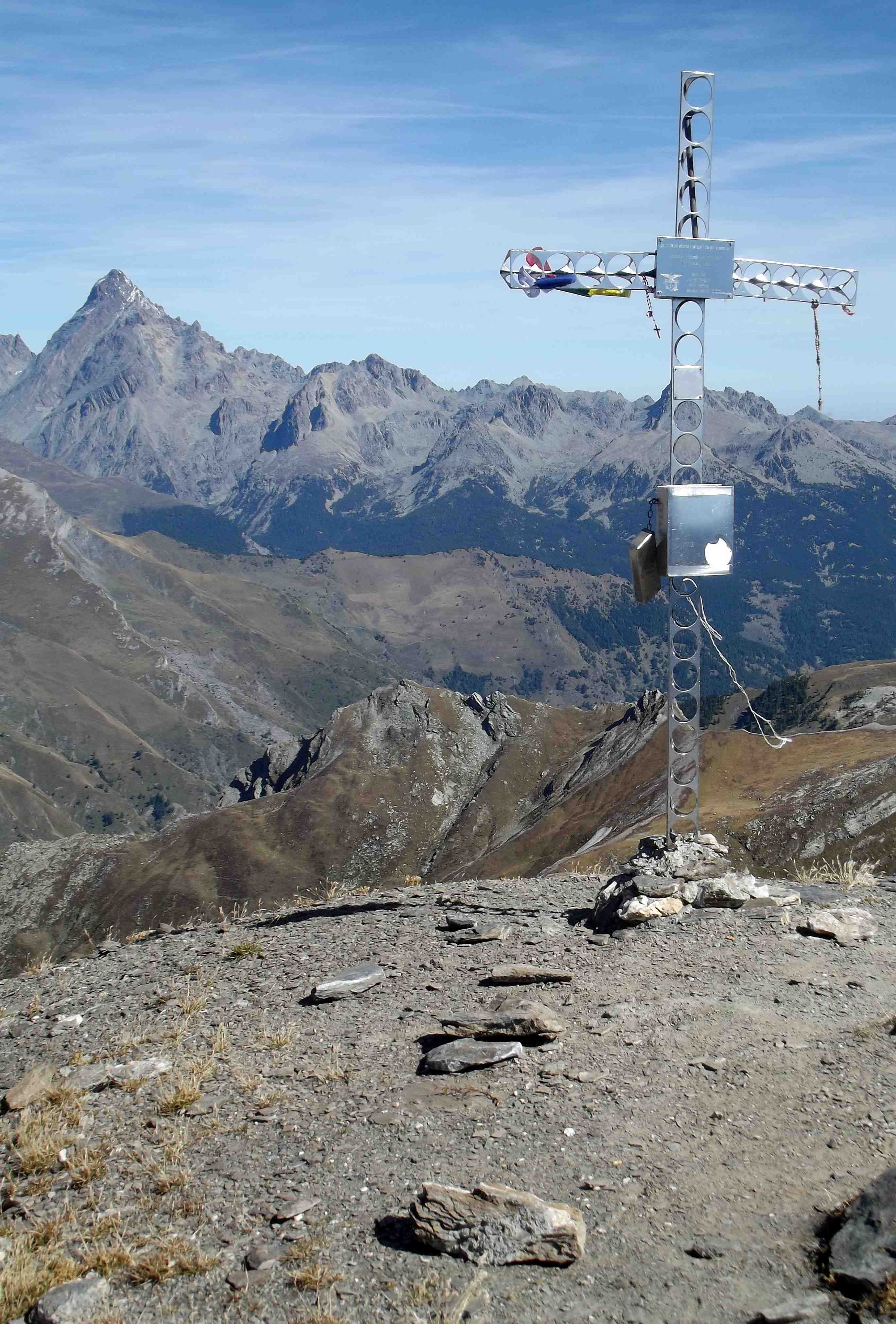 Monte Faraut (Cottian Alps): summit crosso, Monviso in the background